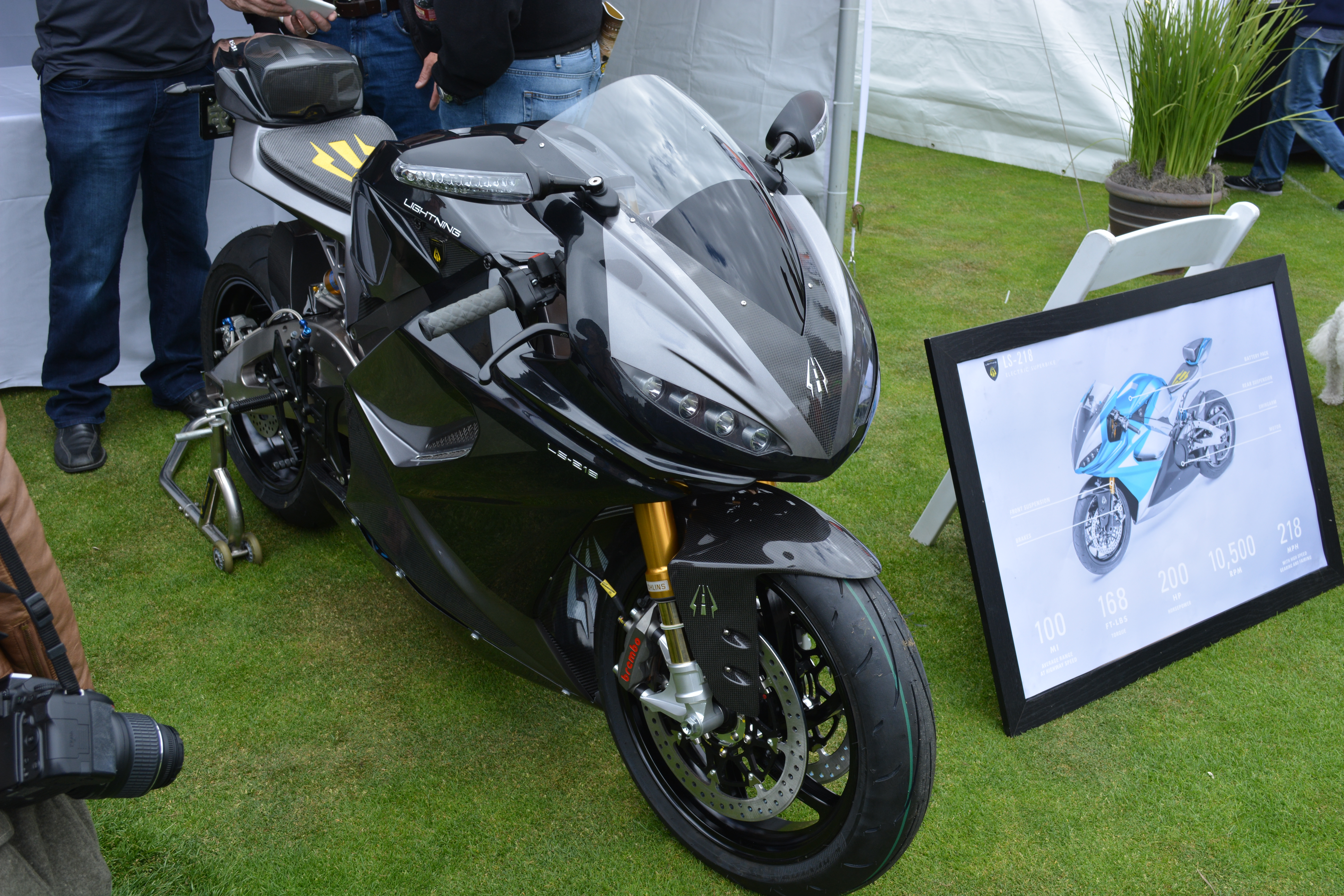 Lightning LS-218 by Lightning Motorcycle. The Quail Motorcycle Gathering 2015, Carmel by the Sea, CA.